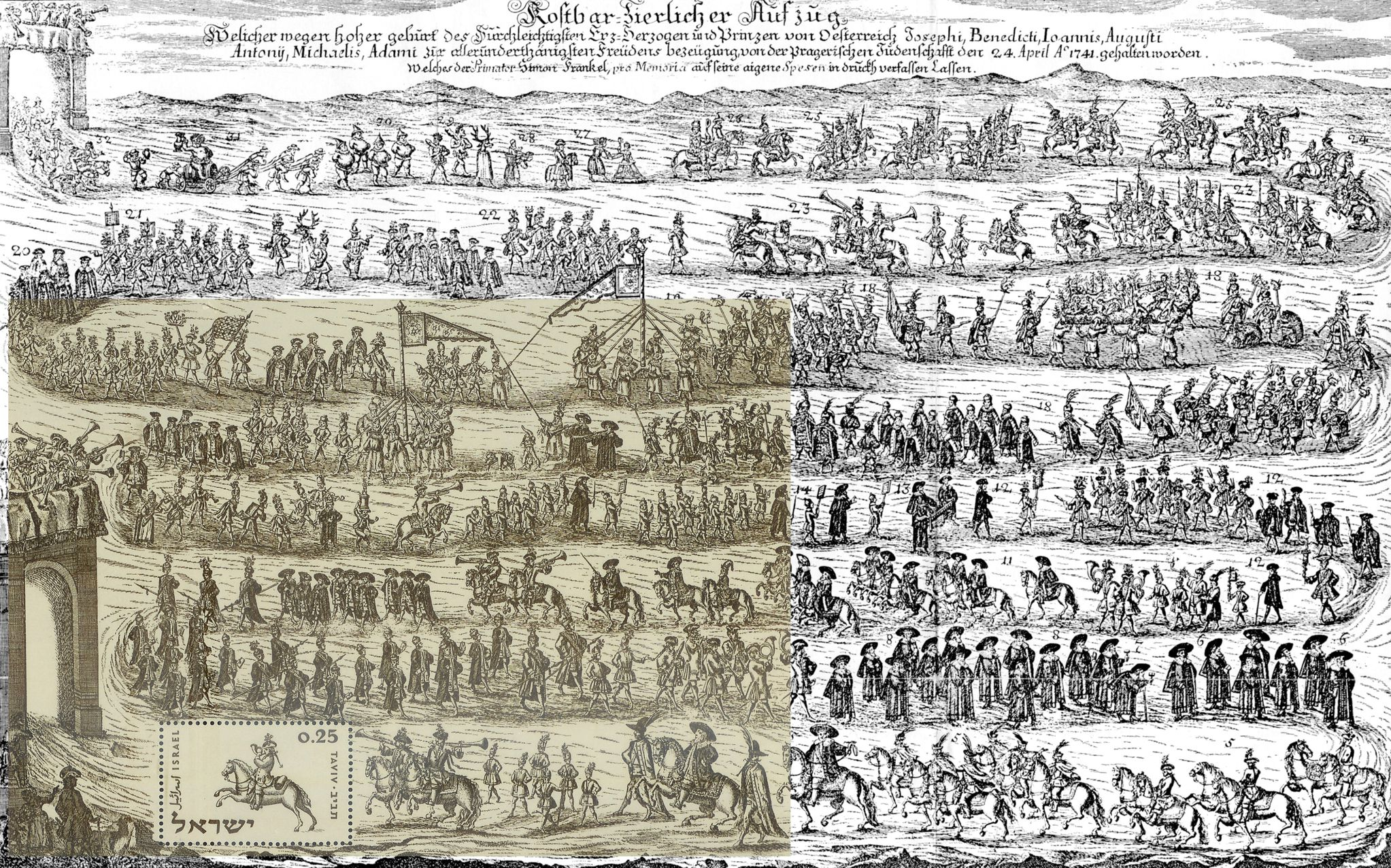 Israel Block 1960 TAVIV source and Block